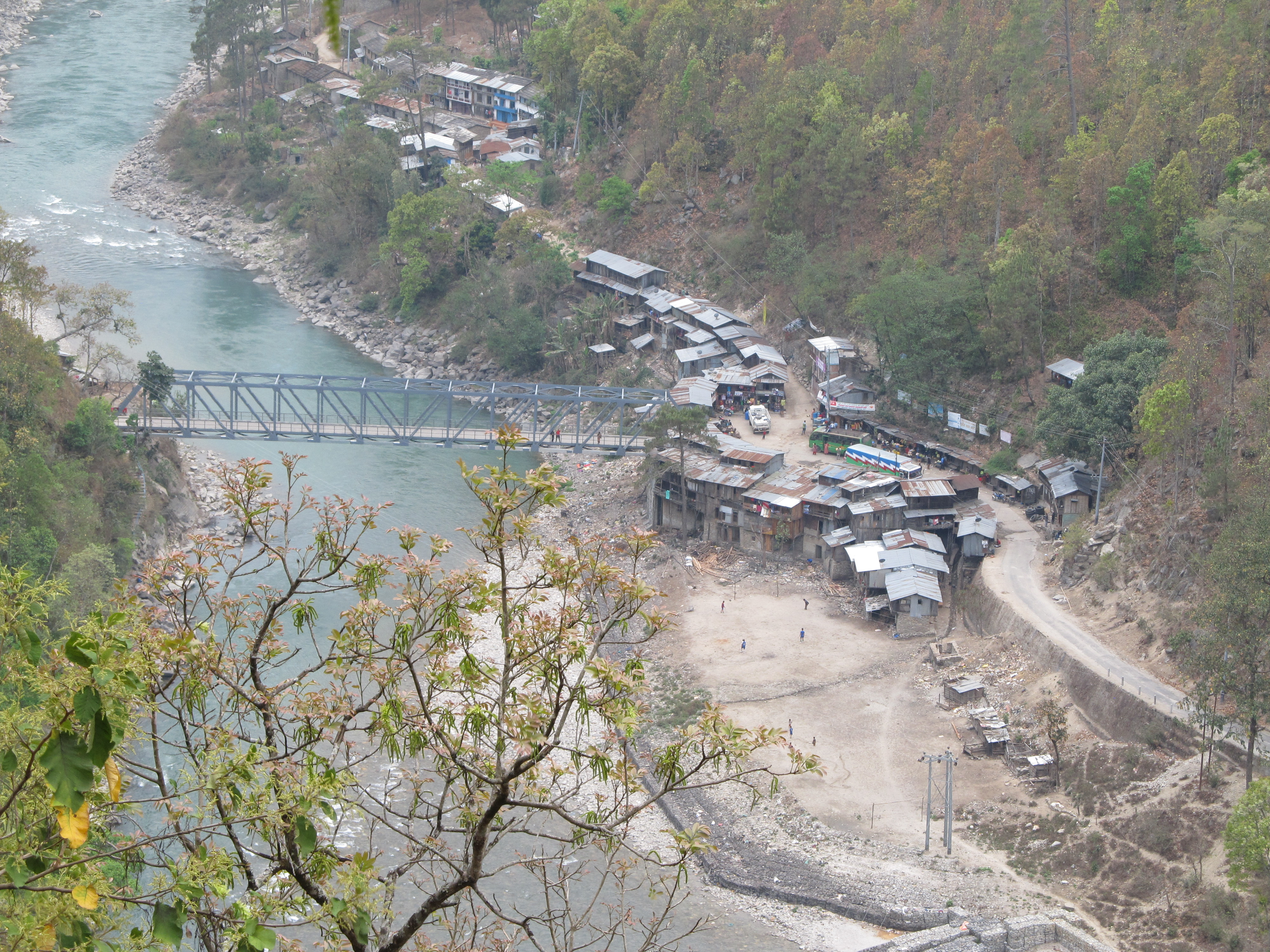 Nayapul with bridge across the Tamakoshi, seen from the eastern side